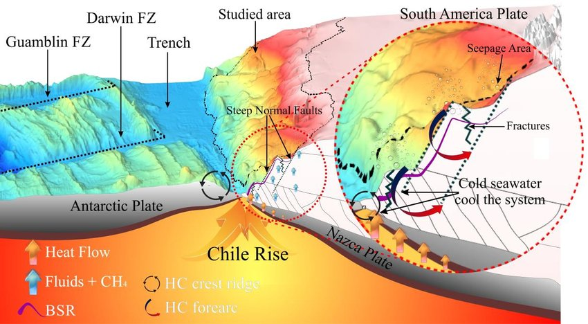 Geofluid systems that are contributing to the decrease in heat flow from at the Chile Triple Junction.